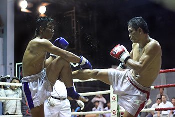 pradal serey fight.